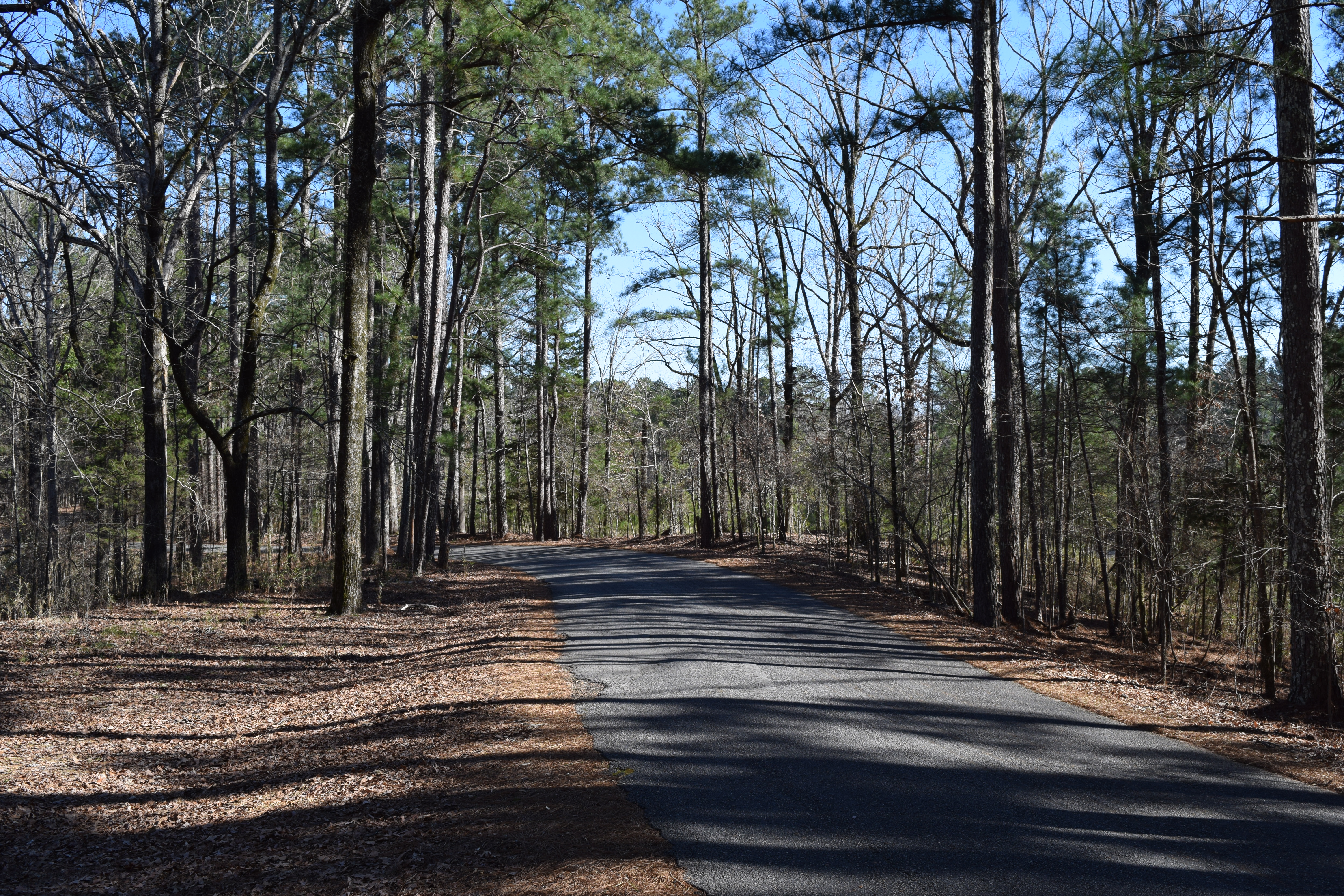 Hugh White State Park Road in Grenada County, Mississippi